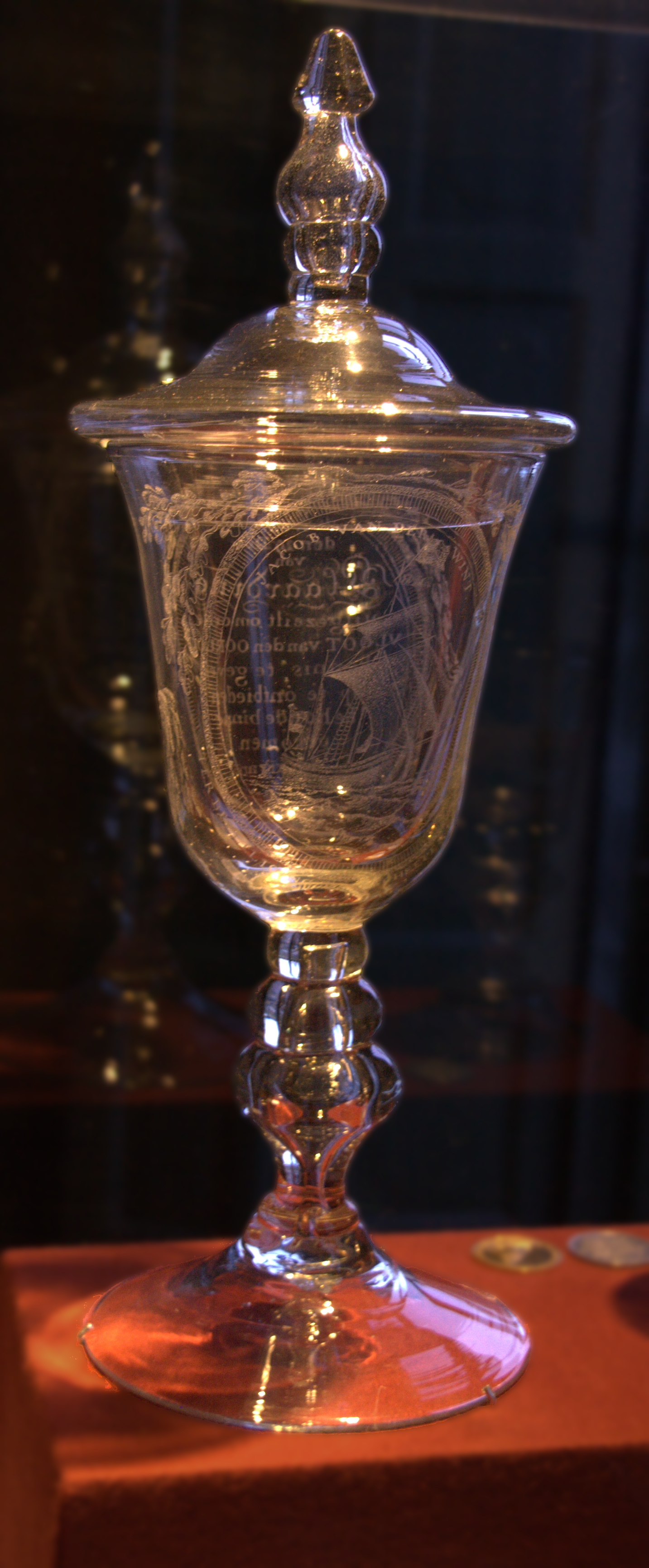 Engraved stemed glassware